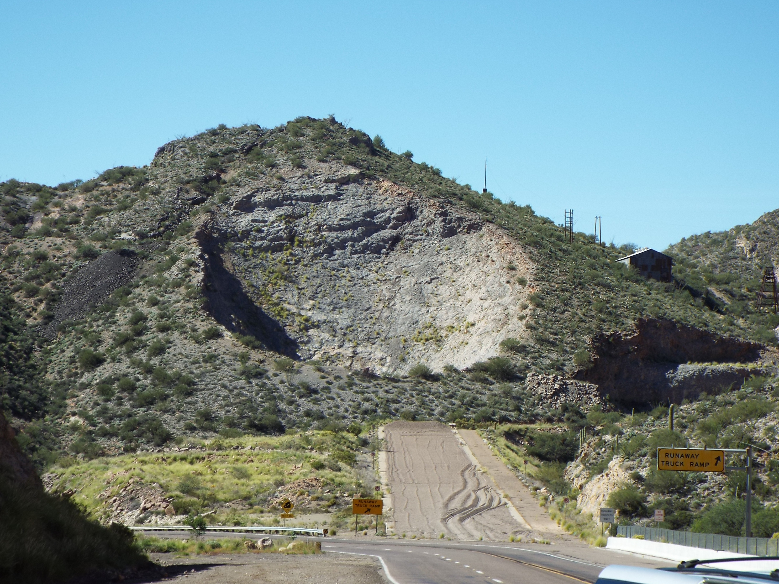 Superior, Arizona-Resolution Copper Project at Apache Leap Mt.